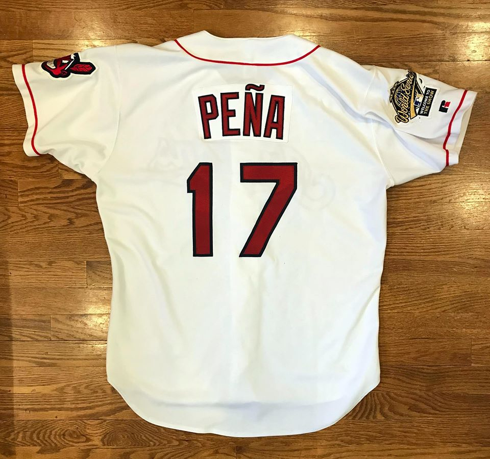 1995 Cleveland Indians #17 Tony Pena World Series Home Jersey restored and photographed by William F. Henderson who may be contacted through his website at thedream.shop